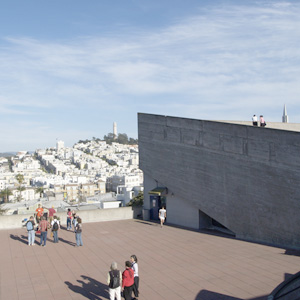 Roof patio of San Francisco Art Institute.